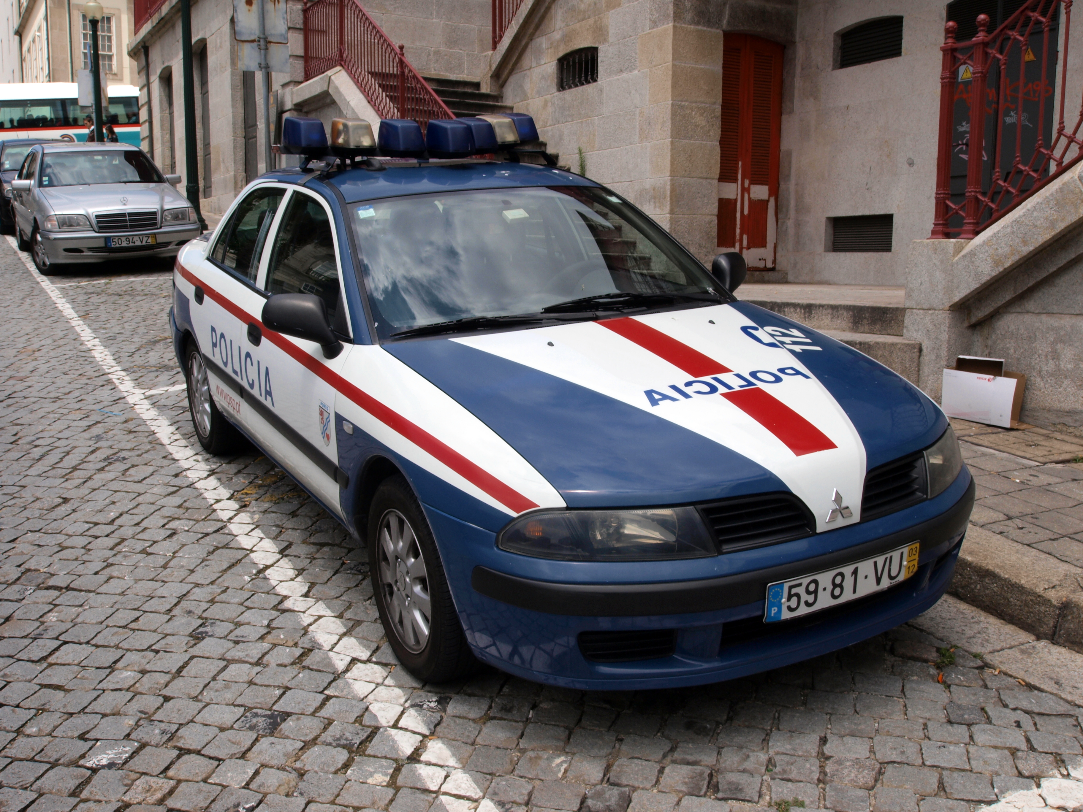 Photographed at Porto, Portugal, with "POLICIA" in mirror writing ("AICILOP").Policia Porto Mitsubishi